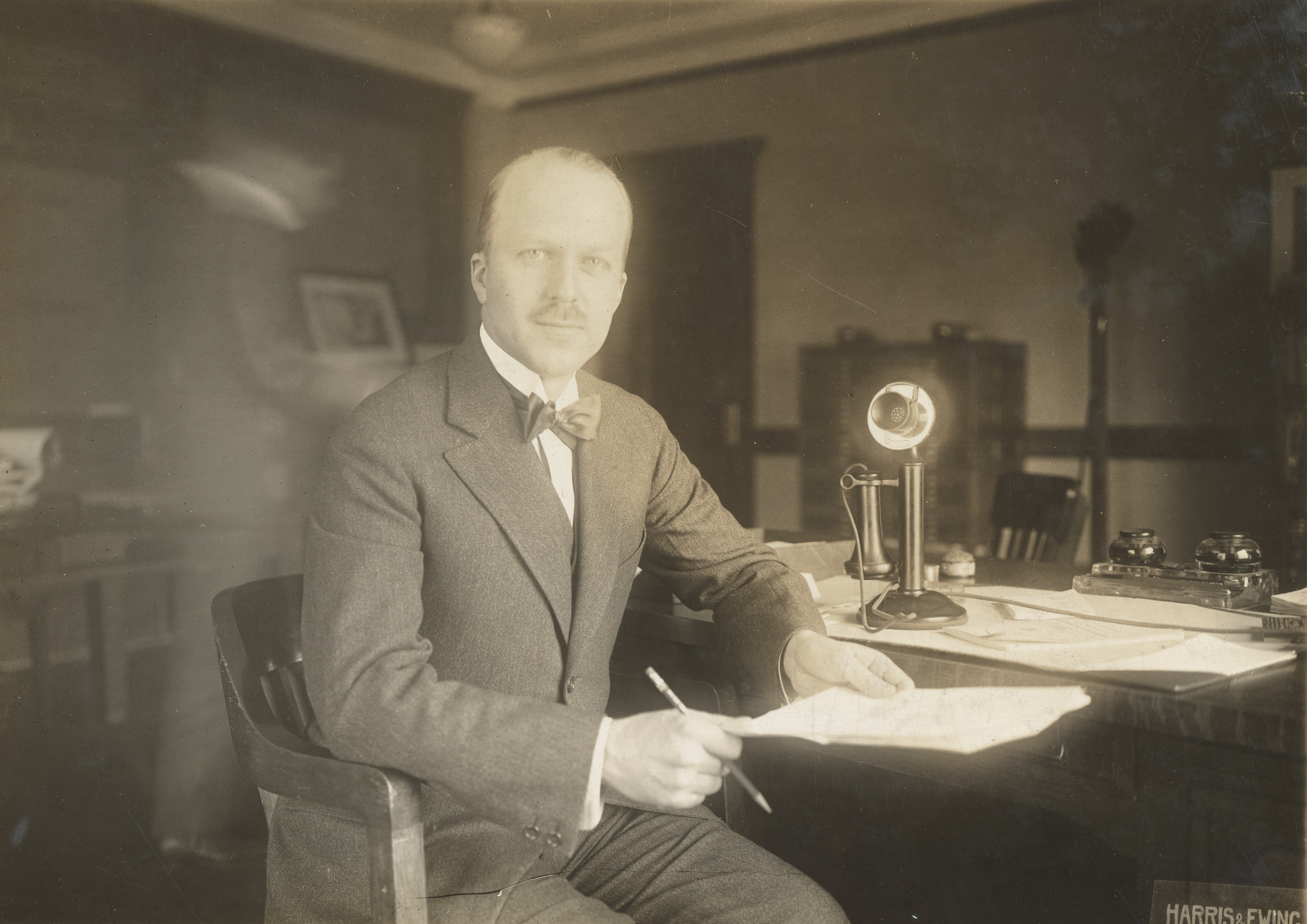 Scope and content: Photographer: Harris and Ewing